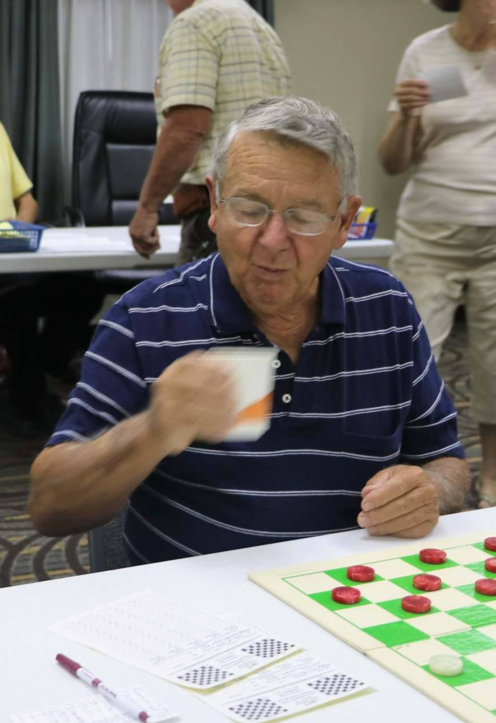 Webster at a checkers tournament on July 27, 2017